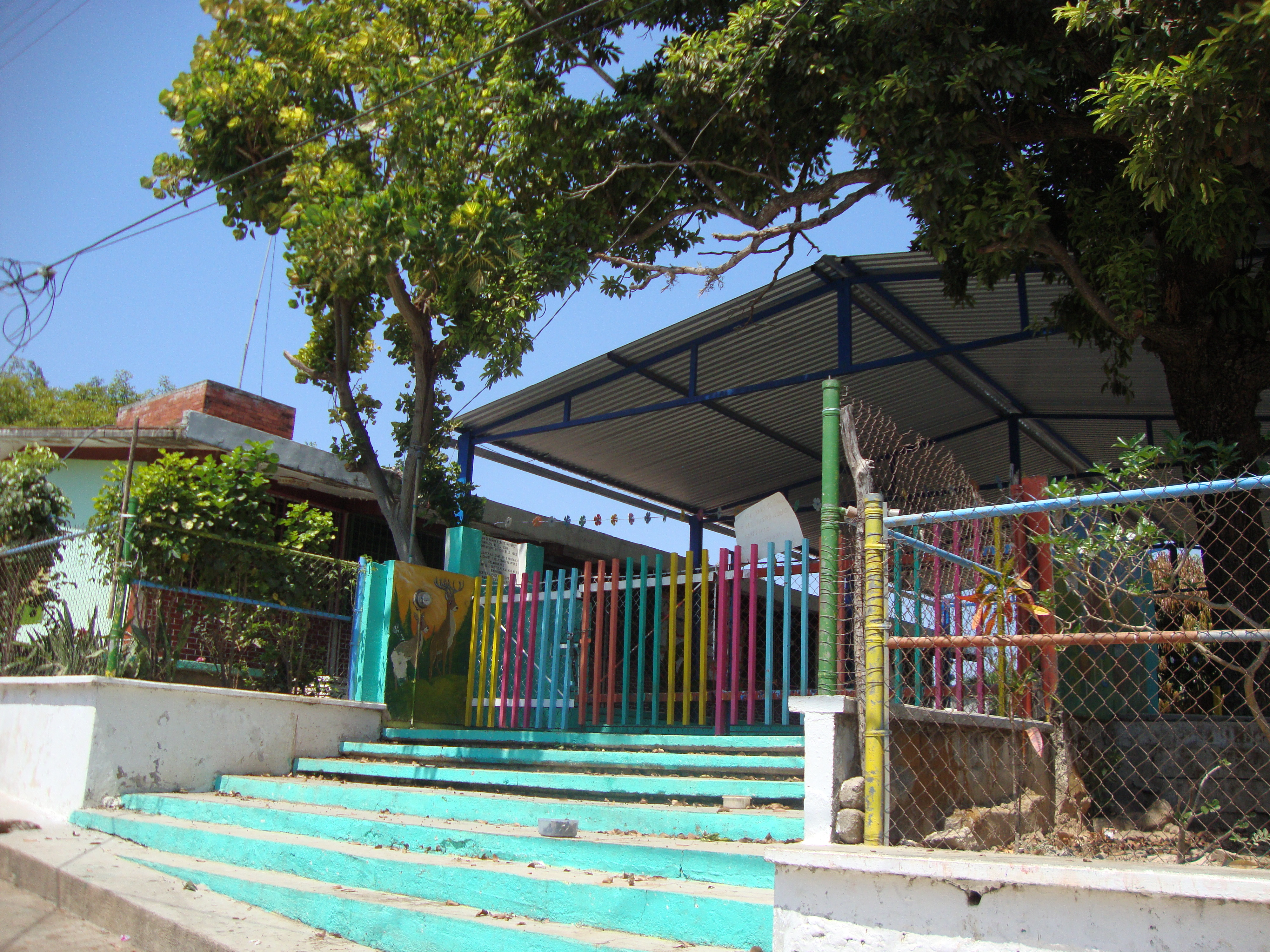 Kinder Garden SIMIENTE